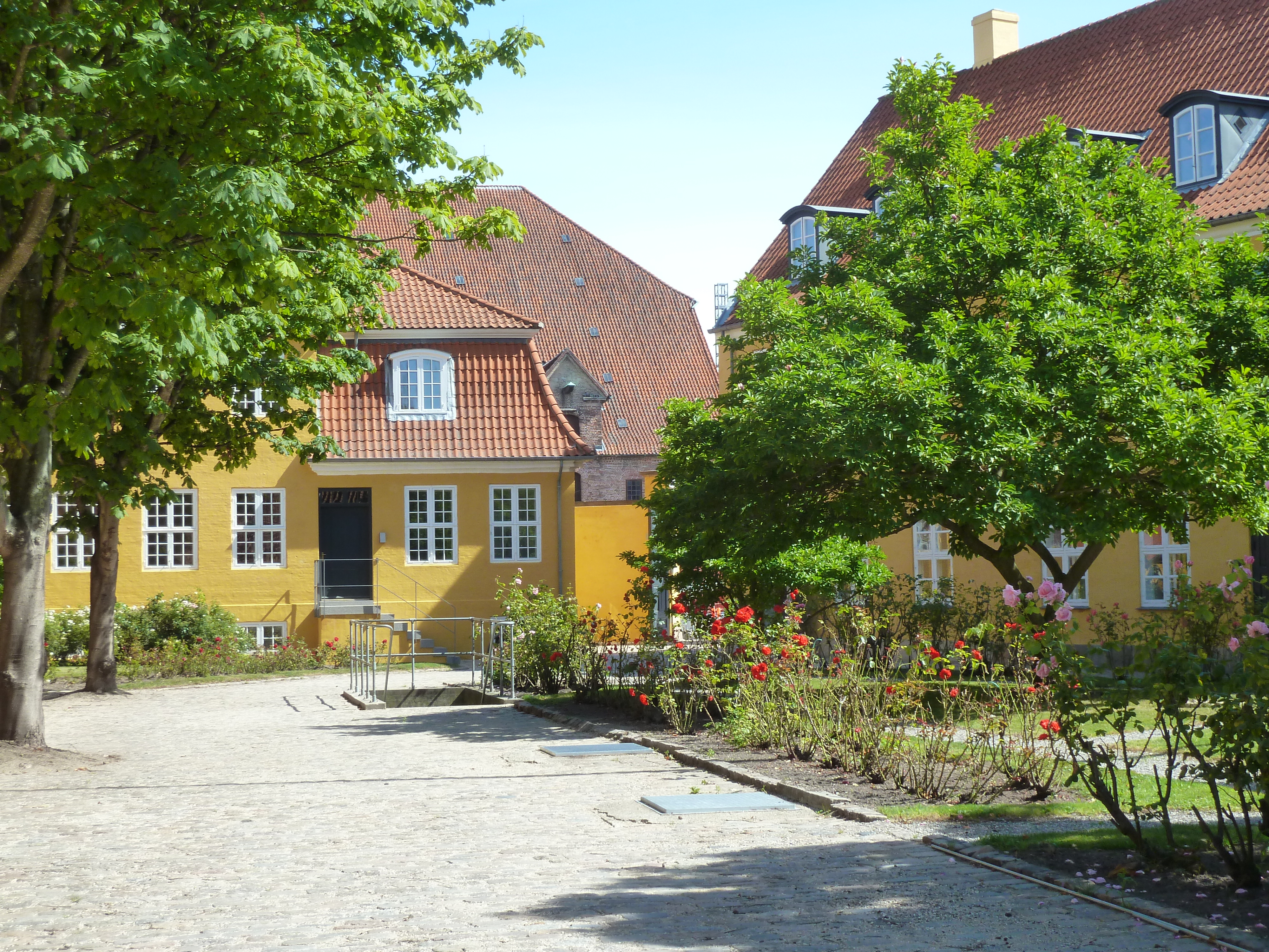 The courtyard/garden at Fæstningens Materielgård in Copenhagen, Denmark